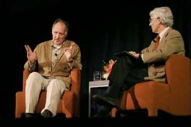 David Sterritt interviewing Werner Herzog, San Francisco Film Festival, 2006